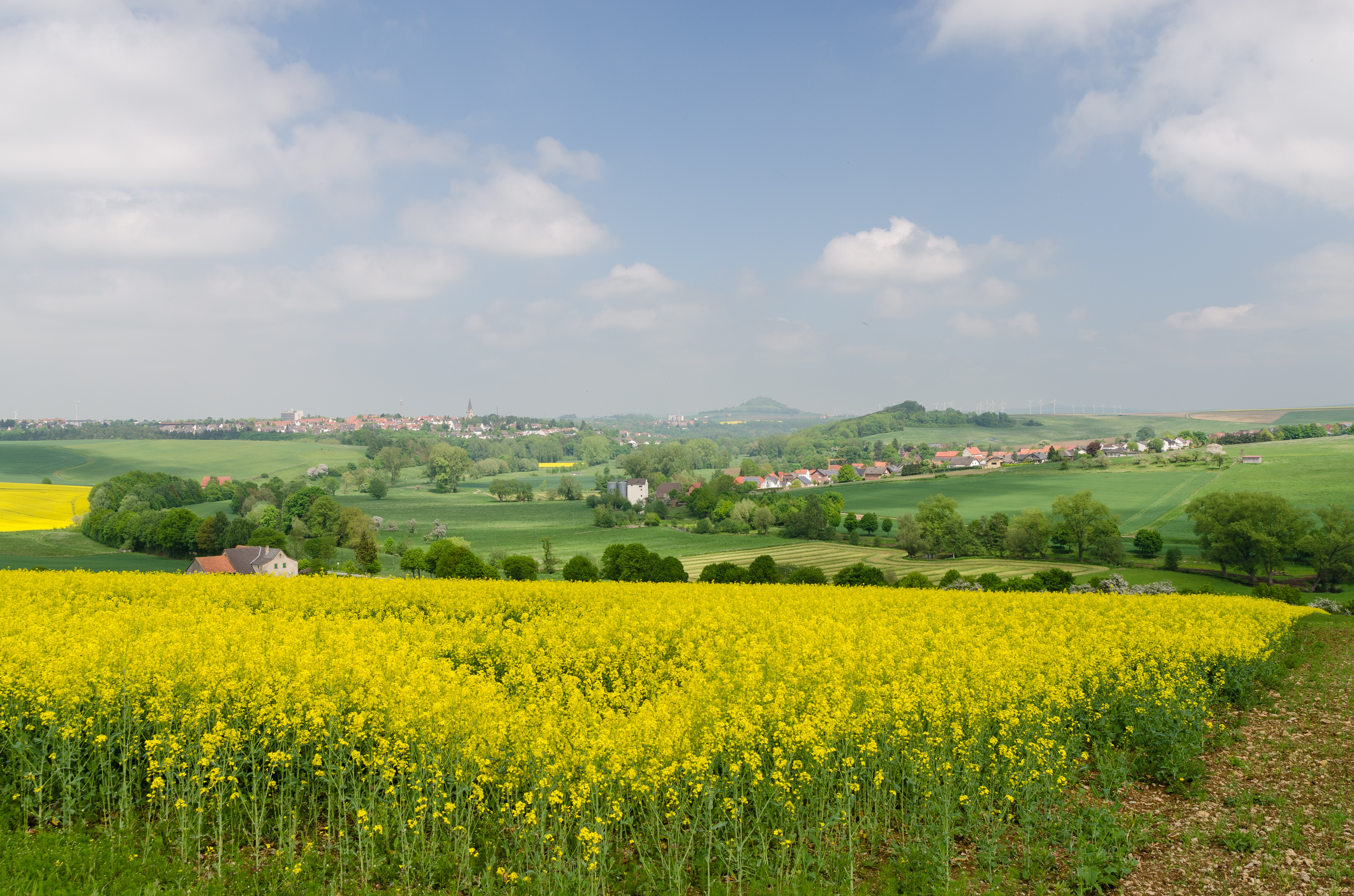 View over Warburg, photographed from Weldaer Berg